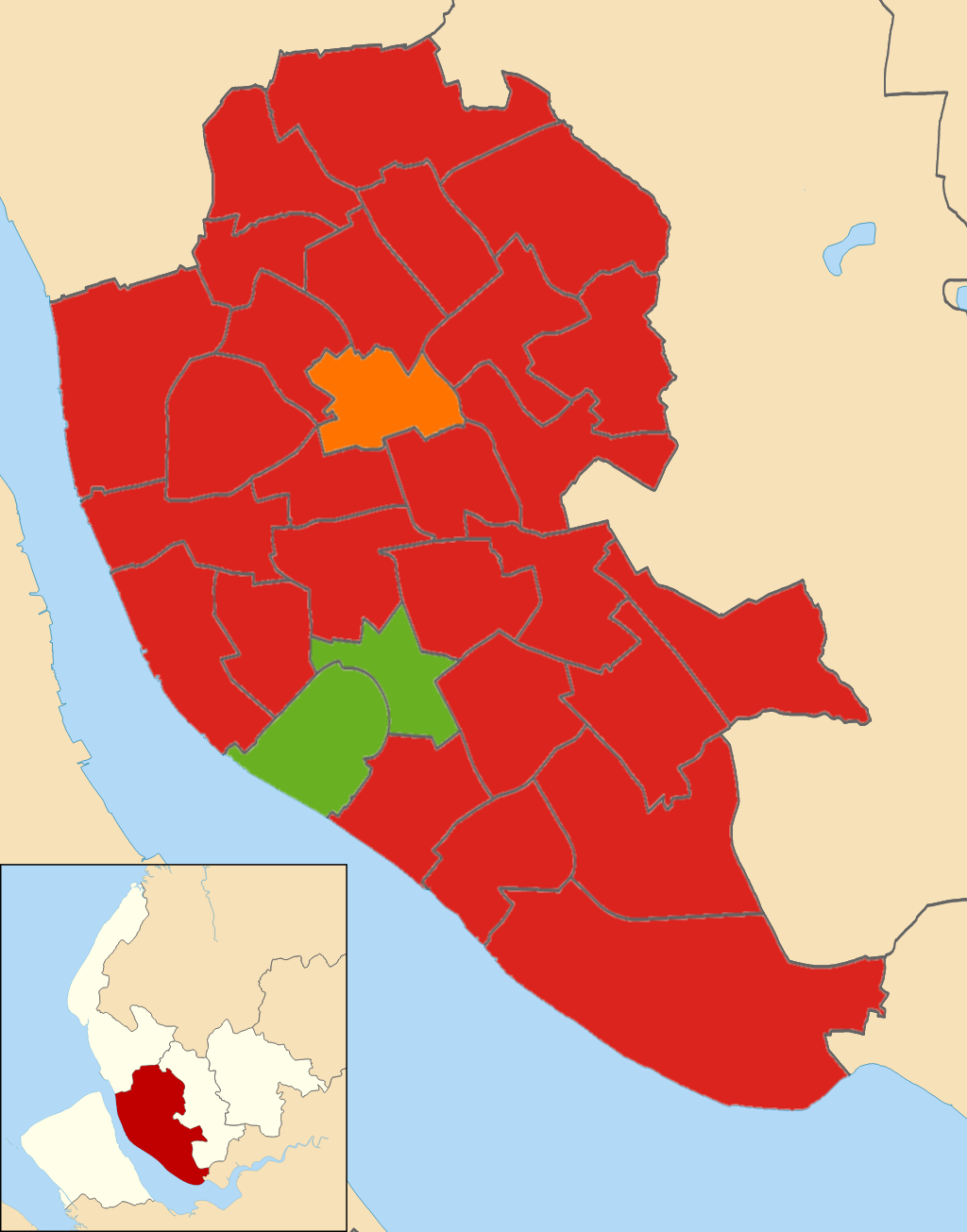 Results of the 2014 local elections in Liverpool Colours: Labour Liberal Party Green party of England and Wales